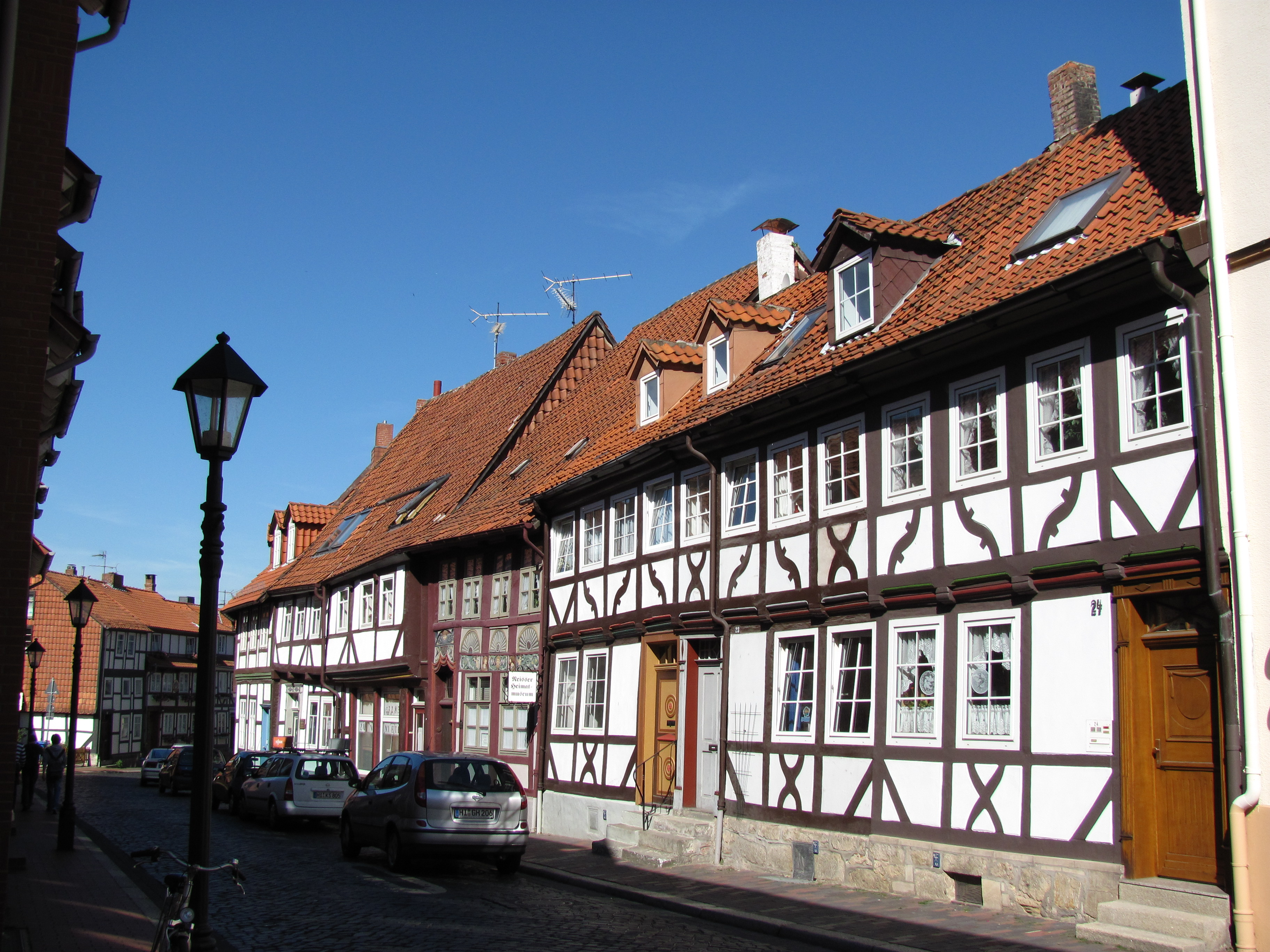 Half-timbered houses in Gelber Stern Street, Hildesheim, Lower Saxony, Germany.